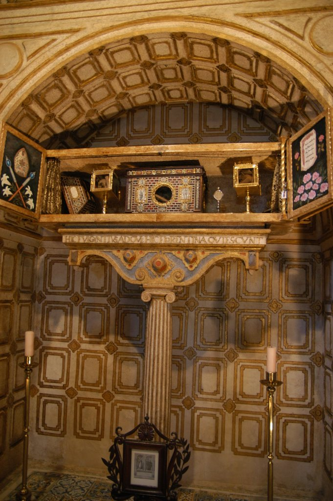 St. Fulgentius' and St. Florentina's relics' arch, at S. Juan Bautista church, Berzocana, Cáceres, Spain